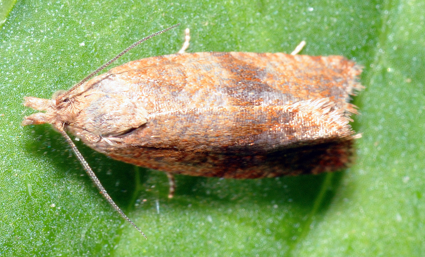 This image shows a 8.5 mm large Tortricidae of the species Celypha striana. Thanks to Olei and Doc Taxon for identifying this animal.